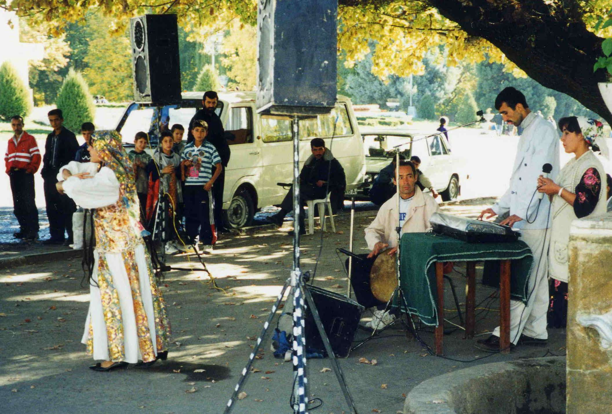 Our dancer, her musicians, and her singer, under the shade of a tree in Dushanbe city.